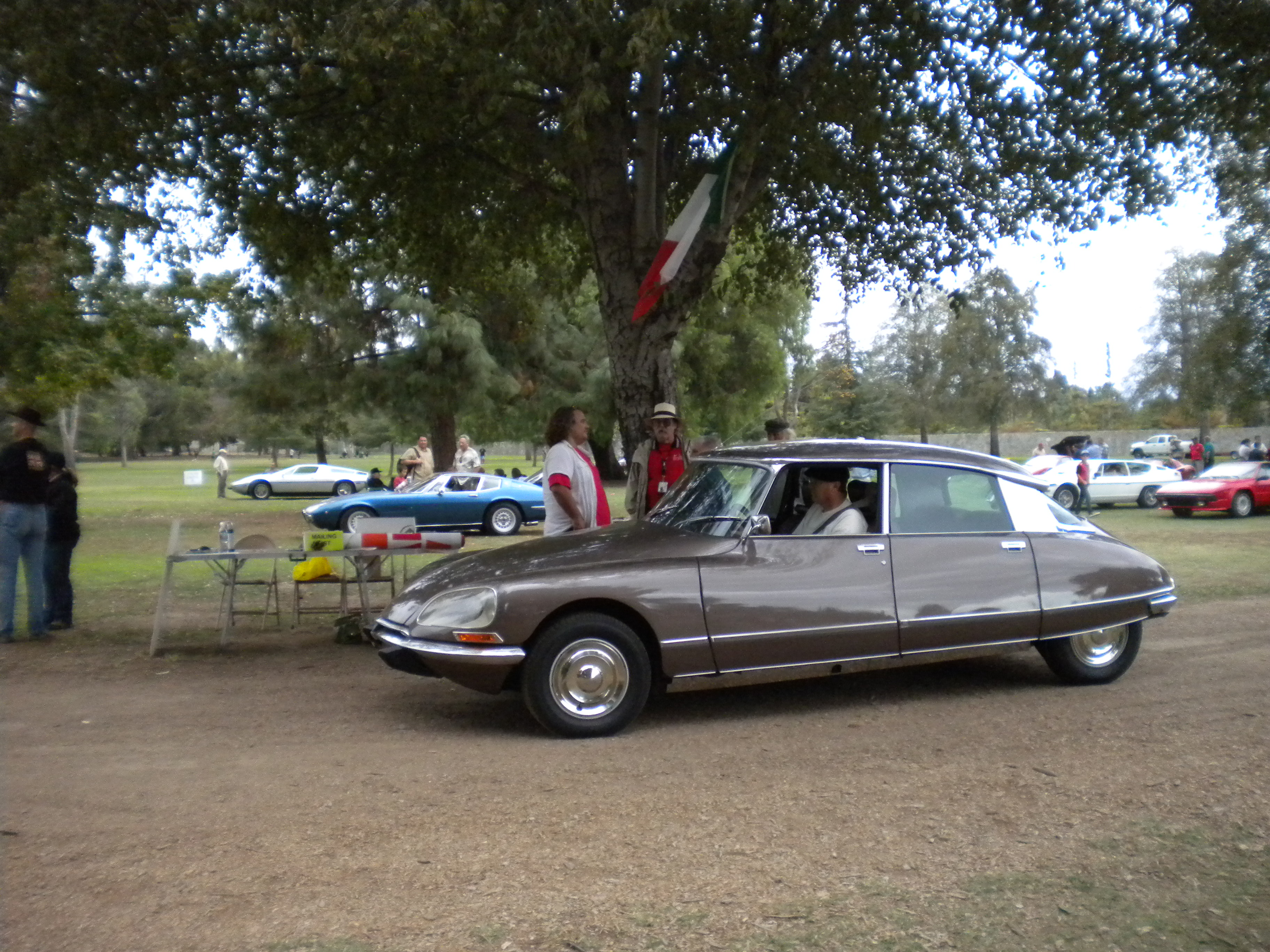 Used by actor Steve Martin in film "Novocaine" Color: BRUN SCARABEE AC 427 (1973-75)